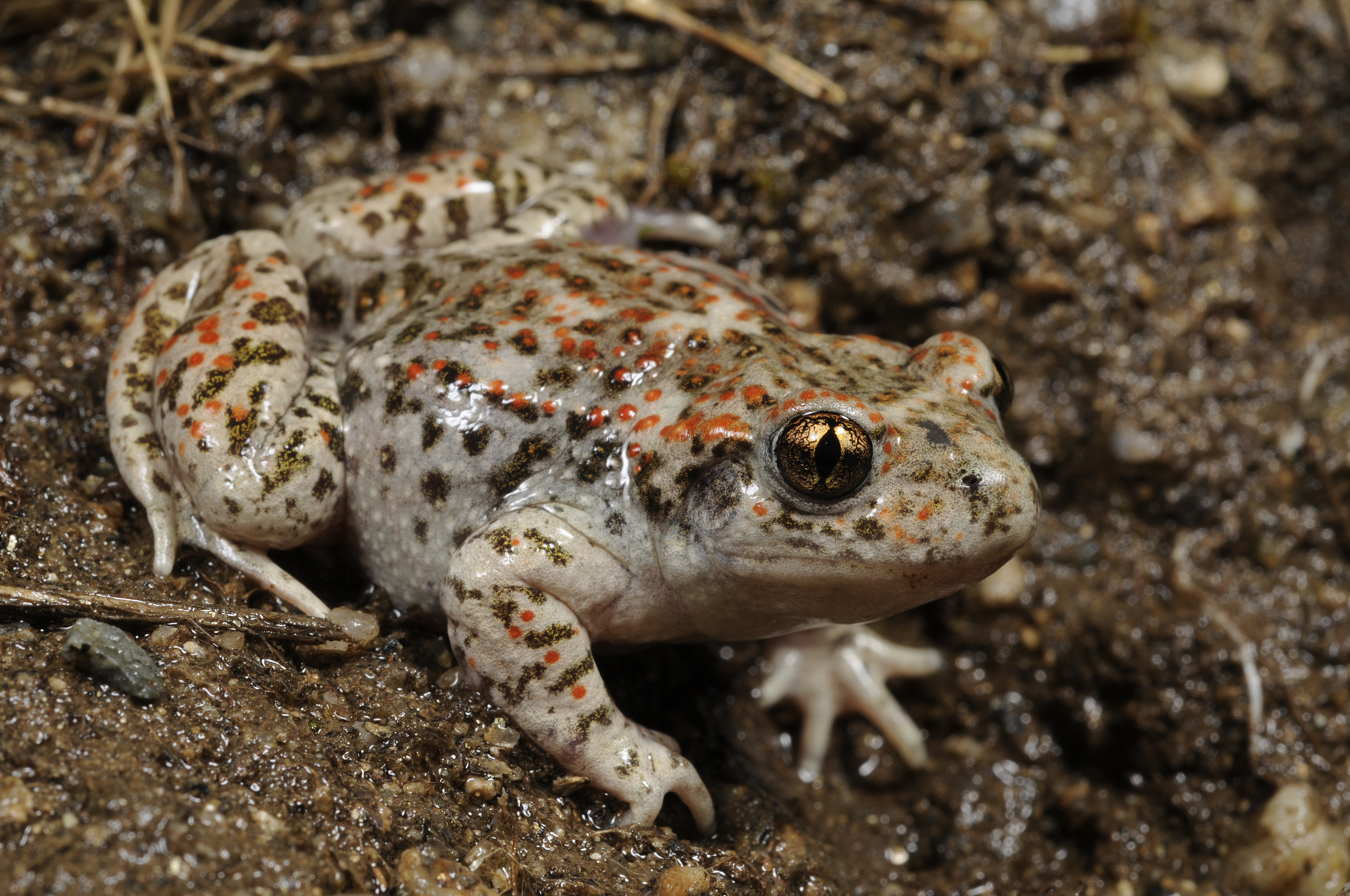 The Iberian midwife toad Alytes cisternasii on a humid ground